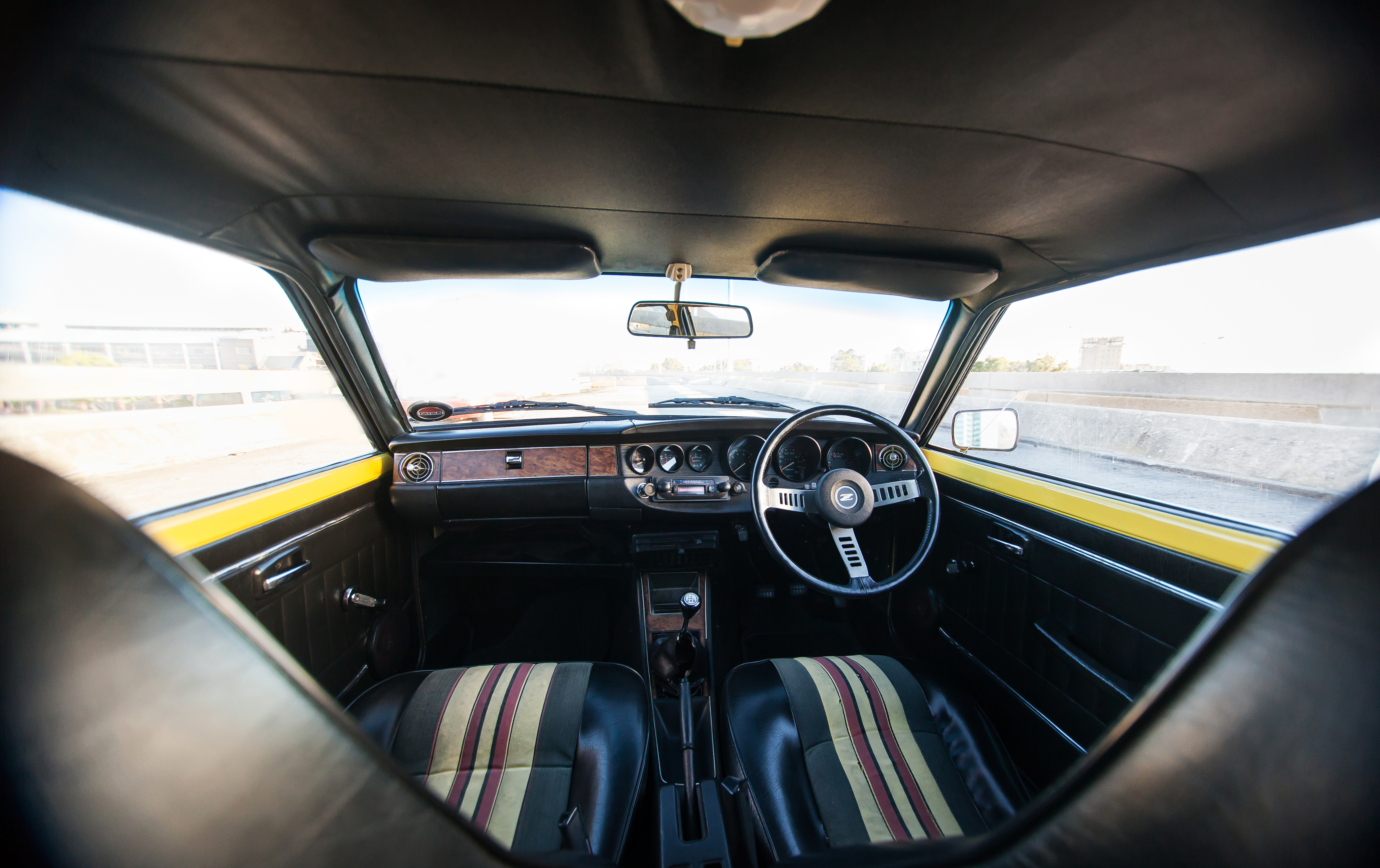 Canary yellow Nissan-Datsun (B210) 160Z Sports Coupe, South African. Interior. Courtesy of Lee-Ann Vigus - &